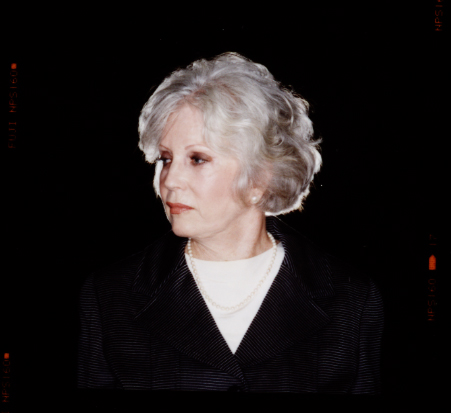 Marianne prior to an evening out.